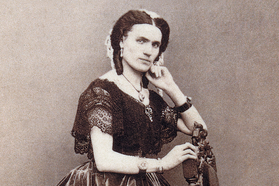 Teresa Stolz-late 1800s